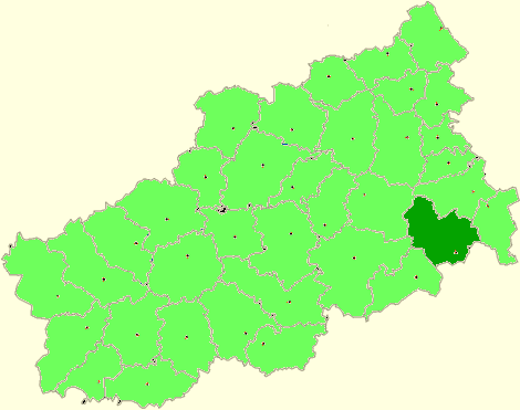 Tver Oblast map by Al Silonov